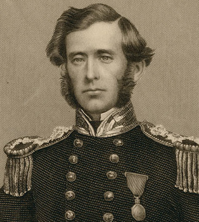 Captain Sir Leopold M'Clintock, R.N., LL.D. Discoverer of the Remains of Sir John Franklin's Expedition.